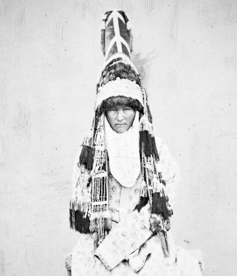 Dress of a Kyrgyz Woman. "Saukele" Turkish, a Ceremonial Hat from Turkestan Album, Around 1865 CE - 1872 CE